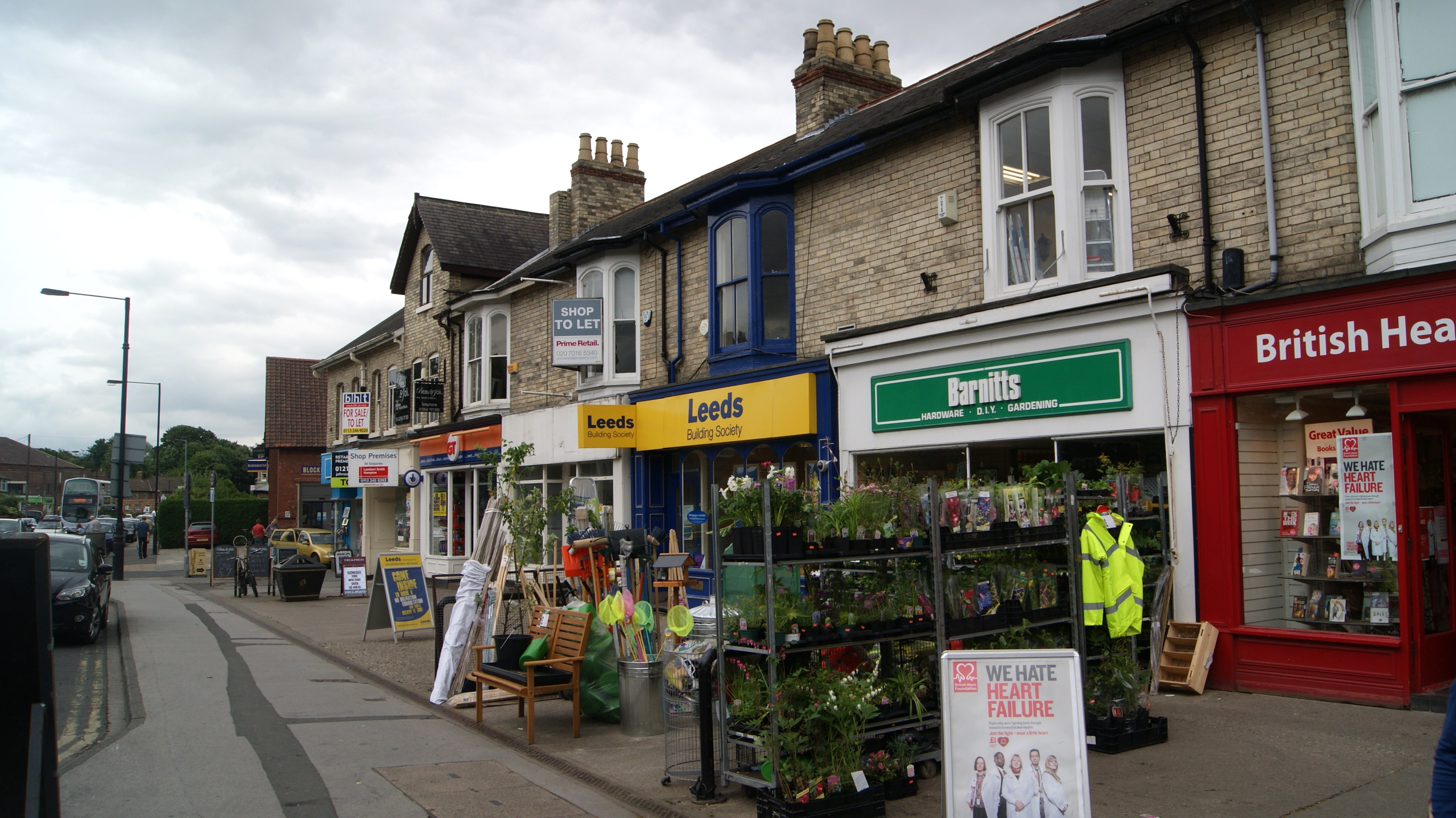 York Road, Acomb, York, North Yorkshire. Taken on the afternoon of Wednesday the 12th of June 2013.